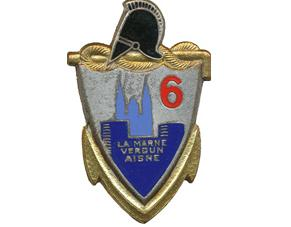 6st Regiment regimental badge engineering.